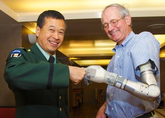 Dr./Colonel Geoffrey Ling doing a fist bump with an artificial arm patient